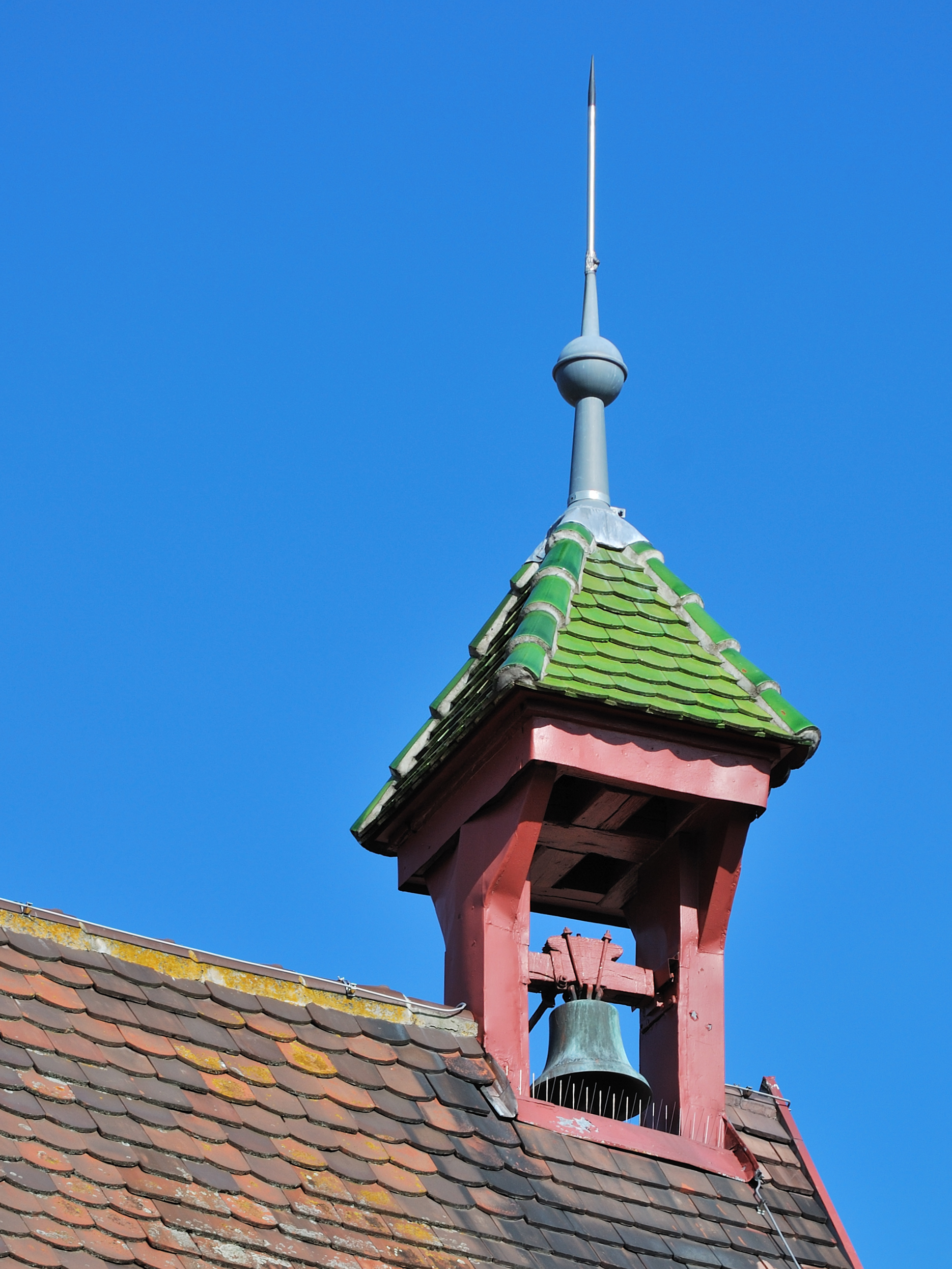 Bell frame at the municipal hall in Münchingen in Southern Germany.